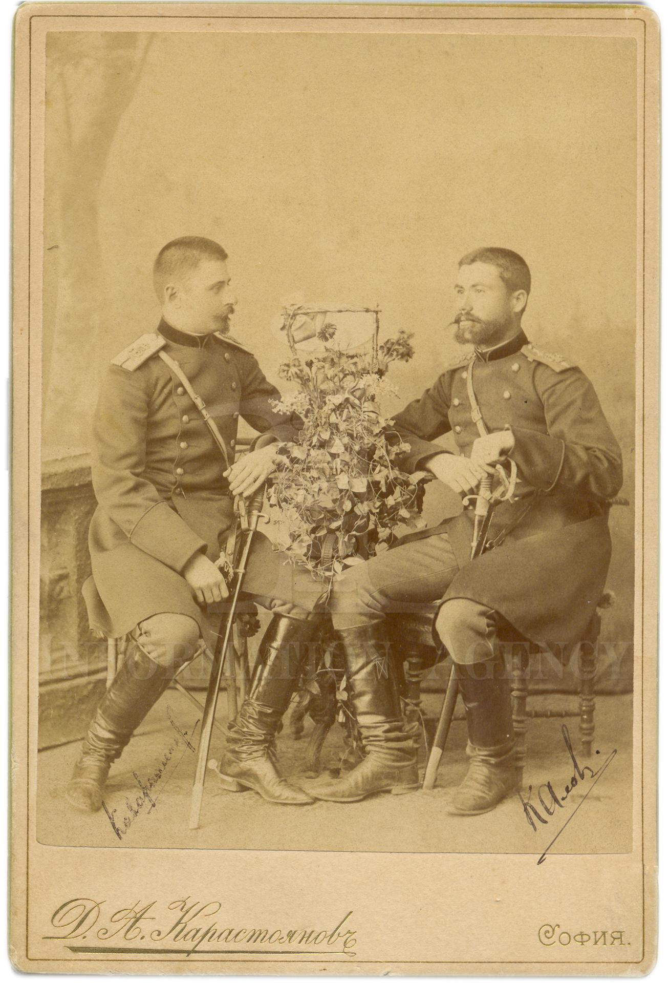 Kosta Kavarnaliev by Dimitar Karastoyanov